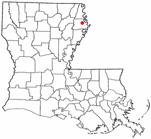 Map of Louisiana showing location of Tallulah